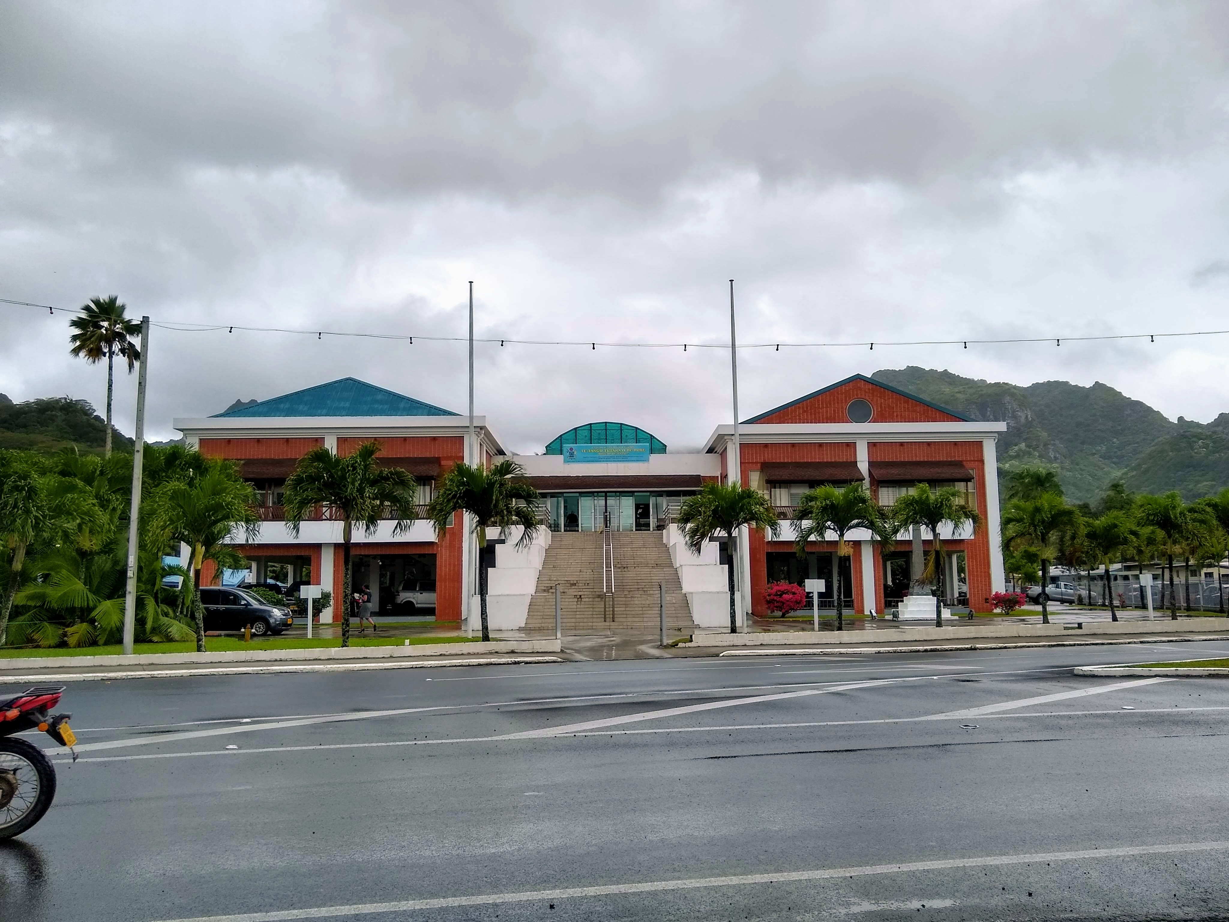 Ministry of Justice building, Avarua, Rarotonga. Recently refurbished with Chinese investment.